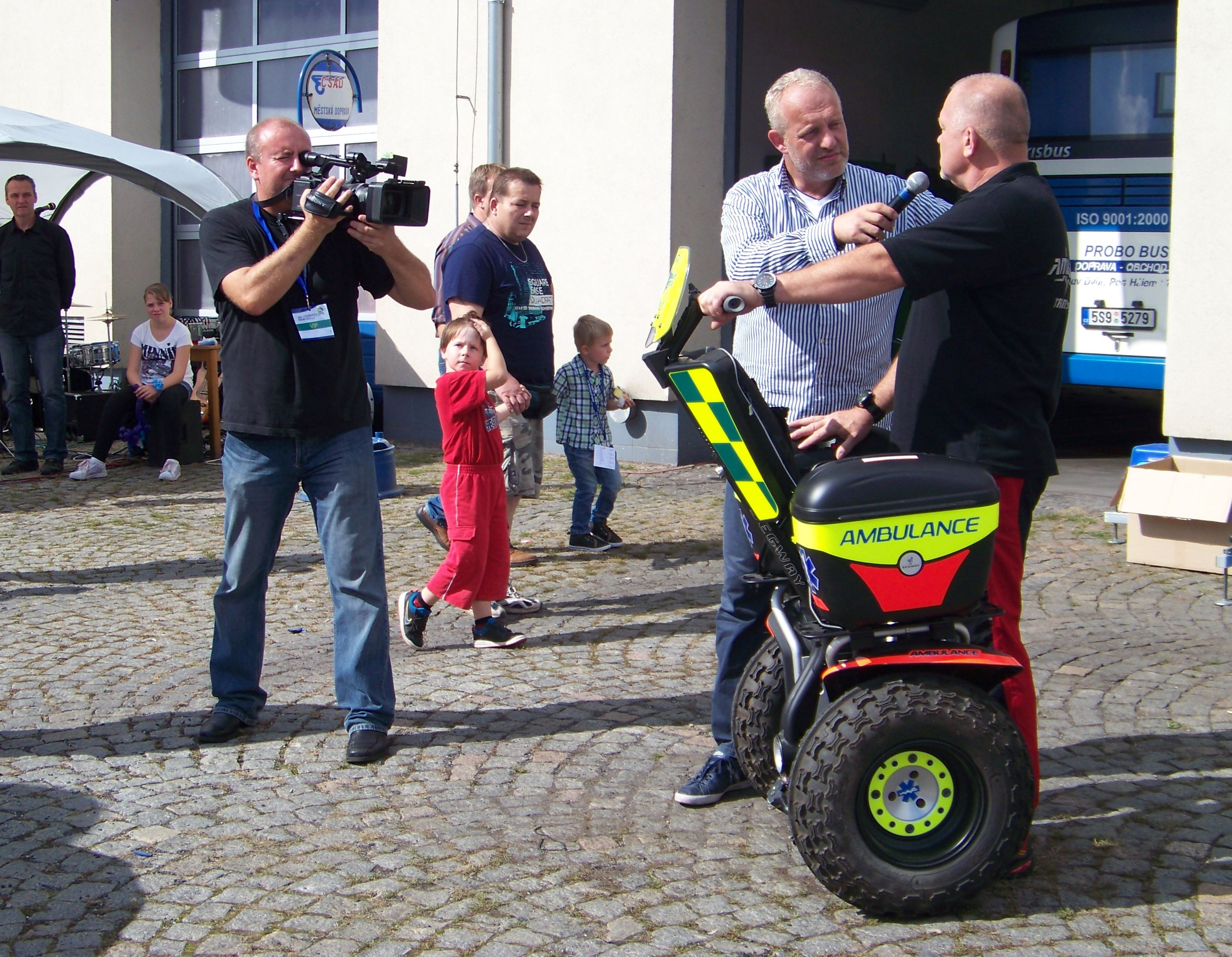 Králův Dvůr, Beroun District, Central Bohemian Region, Czech Republic. Pod Hájem 97, PROBO BUS ground. Open doors day. Rescue Segway, interview filming.